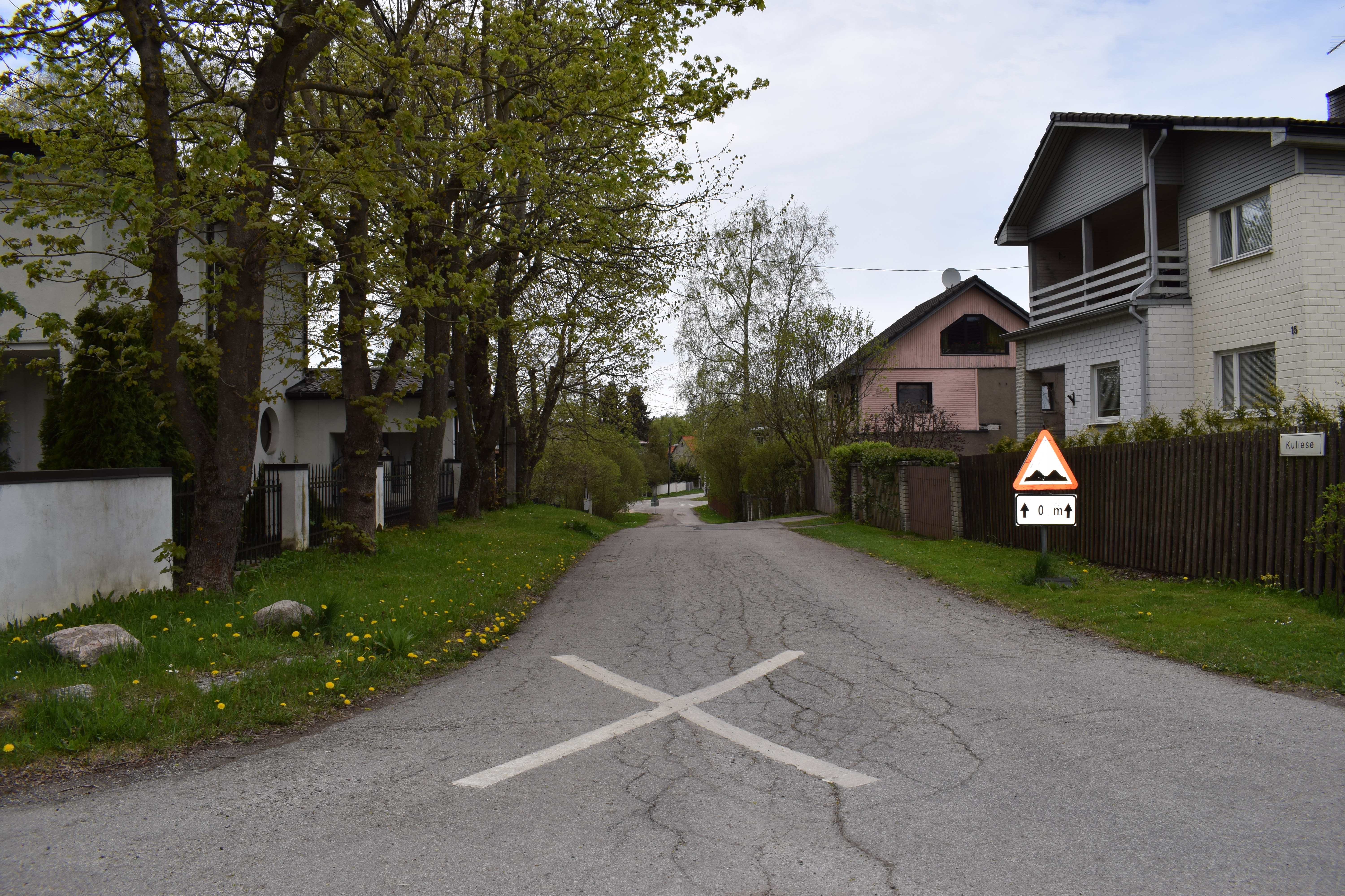 Kullese street